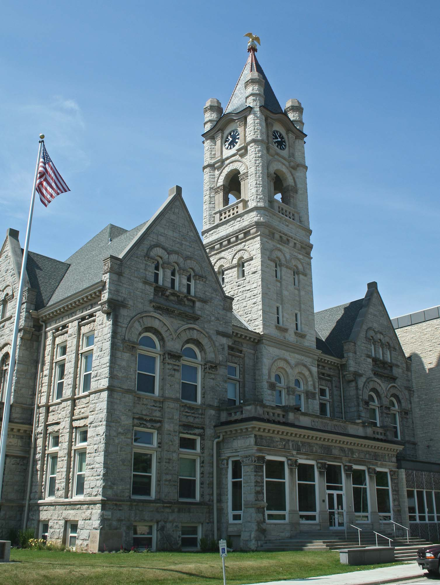 The original Ozaukee County Courthouse, a Registered Historic Place, Port Washington, Wisconsin.